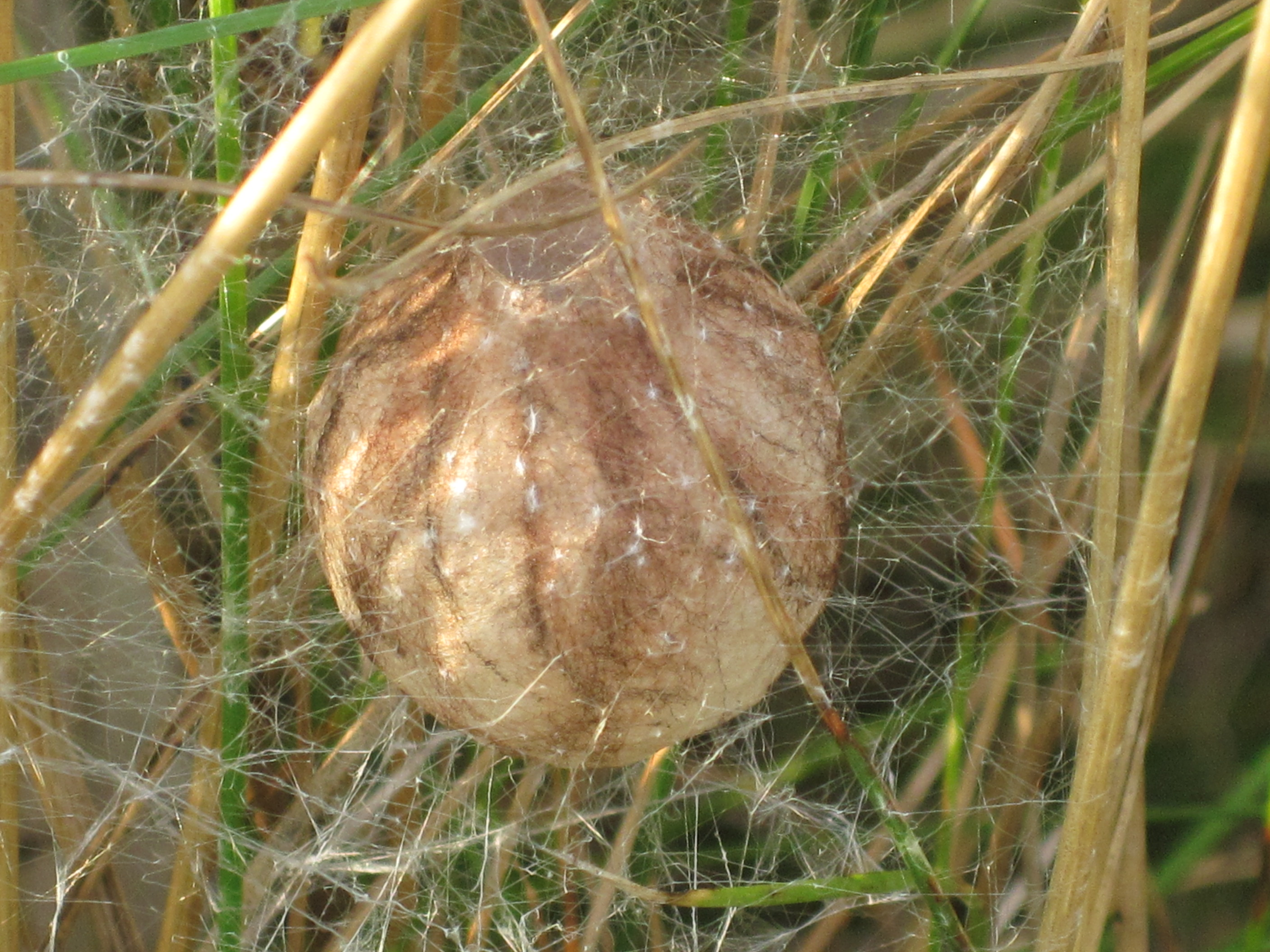 Argiope bruennichi (wasp spider) cocoon - eggsack, Arnhem, the Netherlands